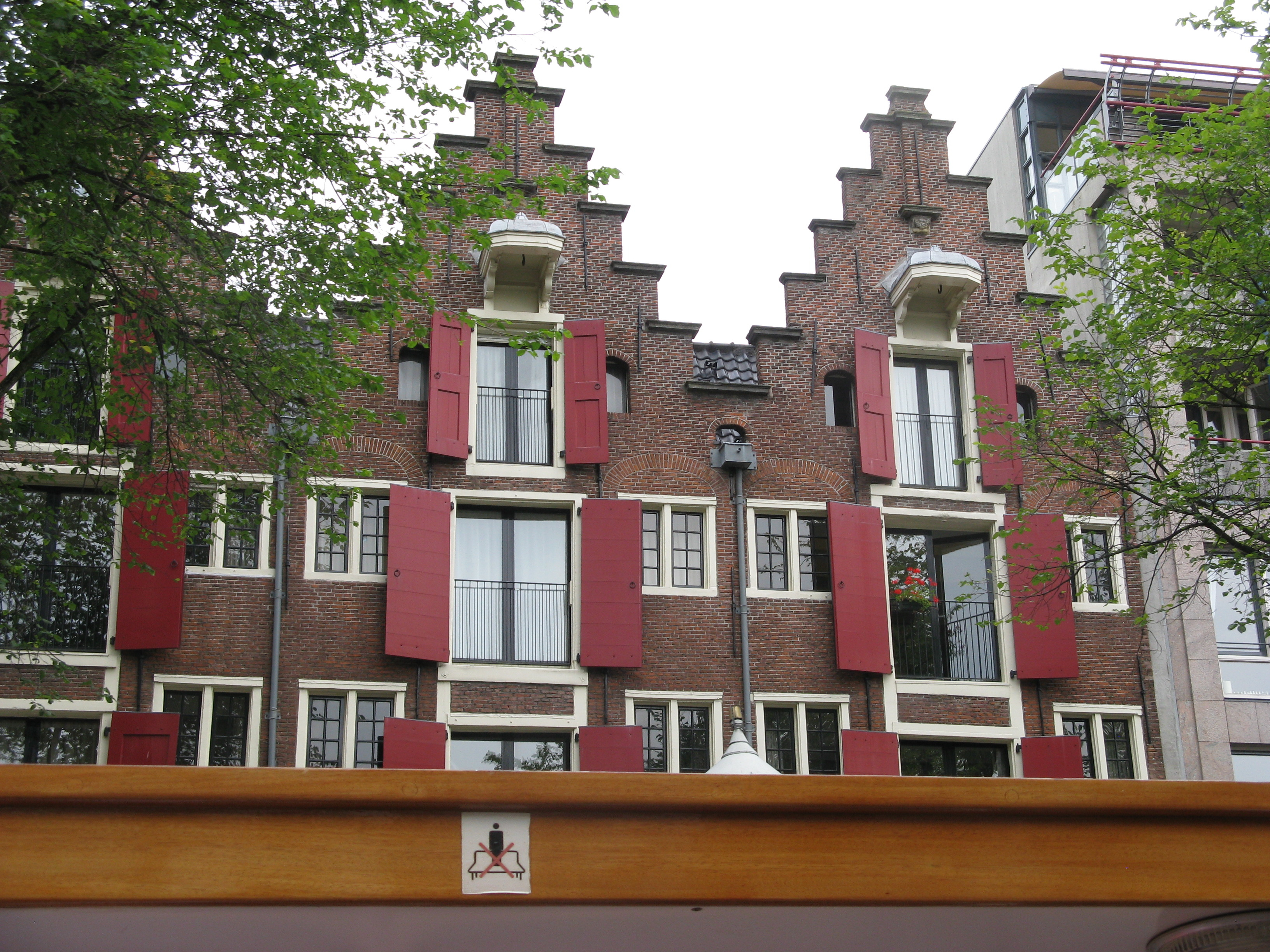 Buildings in Amsterdam - Keizersgracht 2460 - Stepped gables.